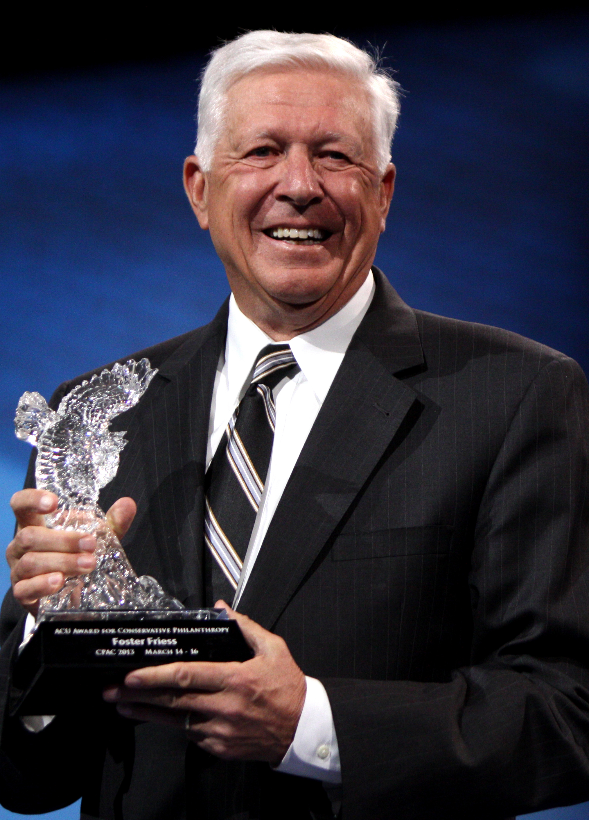 Foster Friess speaking at the 2013 CPAC in Washington, D.C.